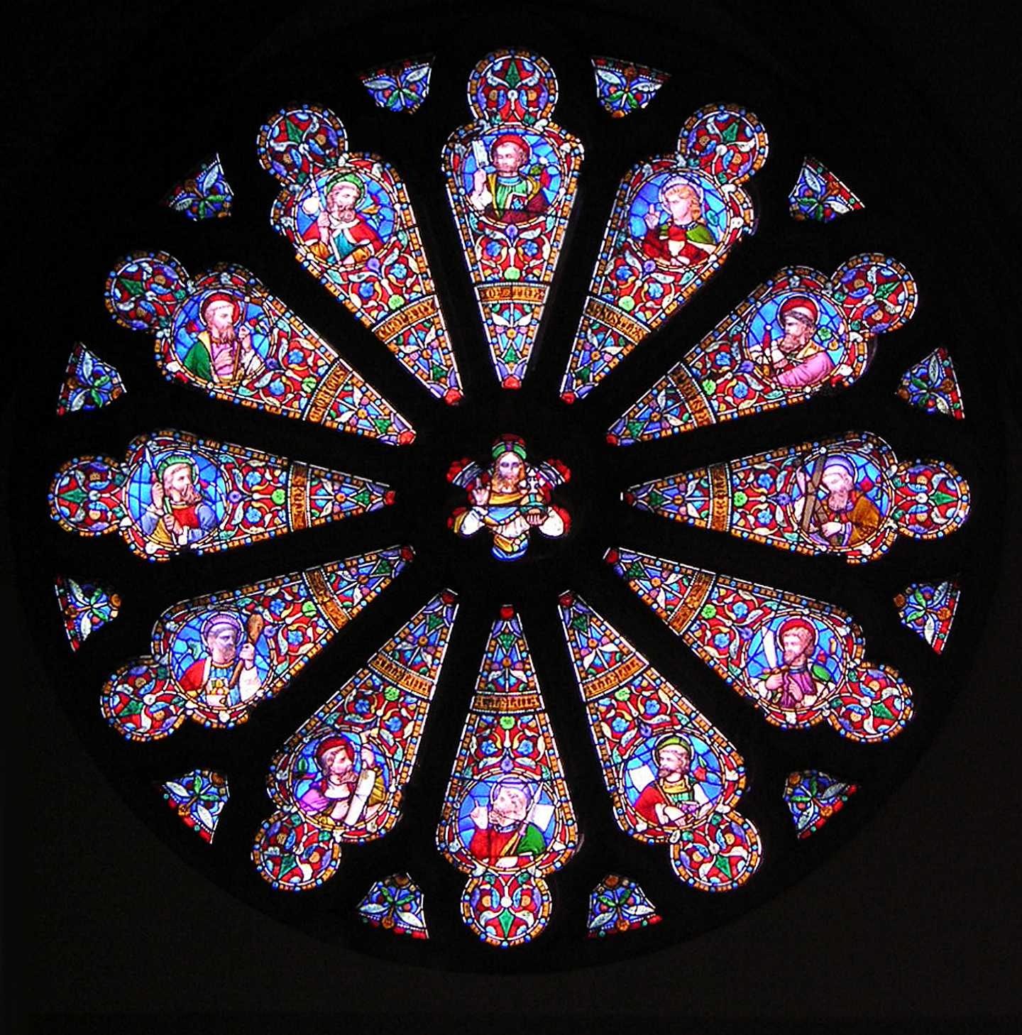 English stained glass. William Wailes. St Matthias, Richmond circa 1865. Architect G. G. Scott